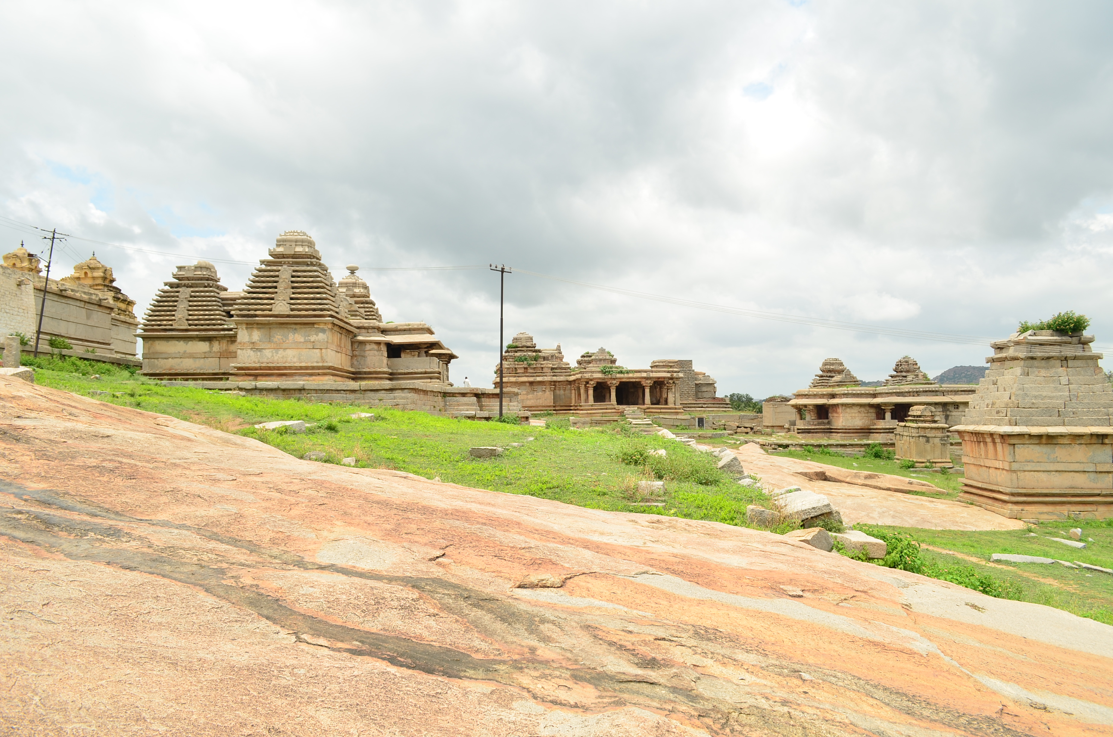 Group of Jain Temples on the Hemakuta hill